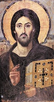 Christ Pantocrator painting from saint Aikaterini monastery in Sina